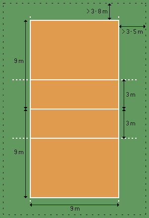 diagram of volleyball court with lengths